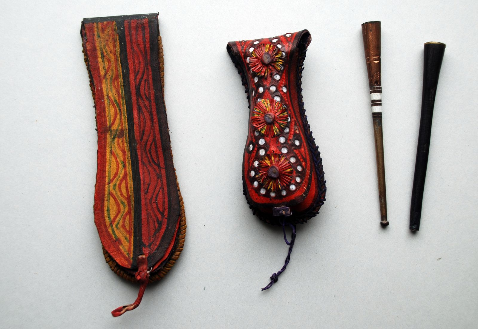 Beit (hassania), small bags for tobacco in Mauritania